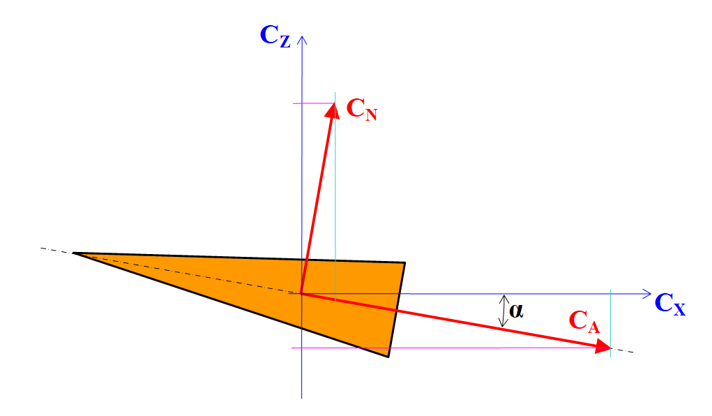 Conversion of dimensionless rocketists coefficients CN and CA into coefficients Cz and Cx (those of of aircraft manufacturers). If the projection of CN and CA on the Cx axis gives two positive values, their projection on the Cz axis gives a positive value and a negative value (hence the minus sign in the conversion formula Cz = f (CN and CA) ).